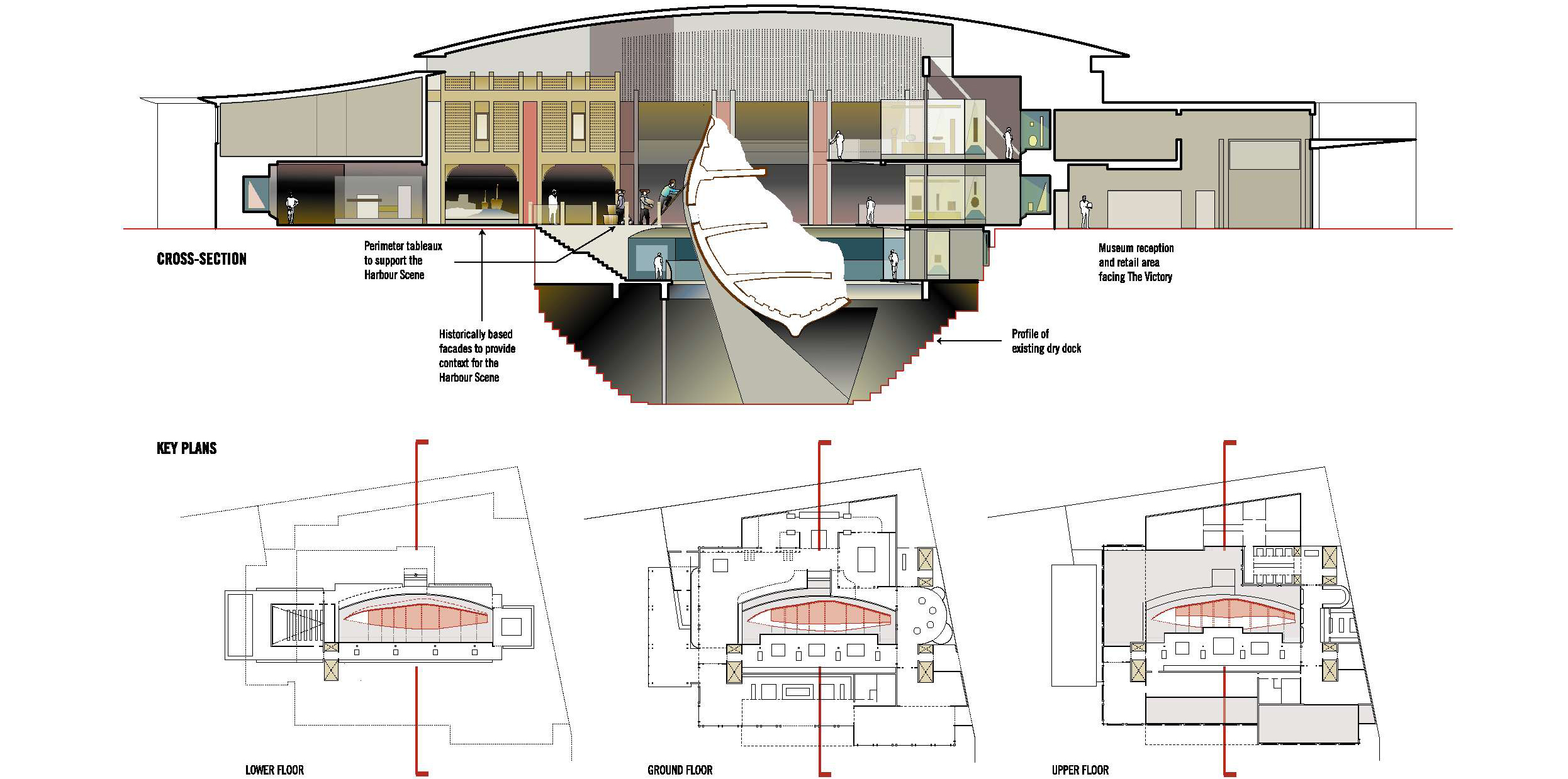 Original description "Sectional View, Mary Rose Museum"[1]